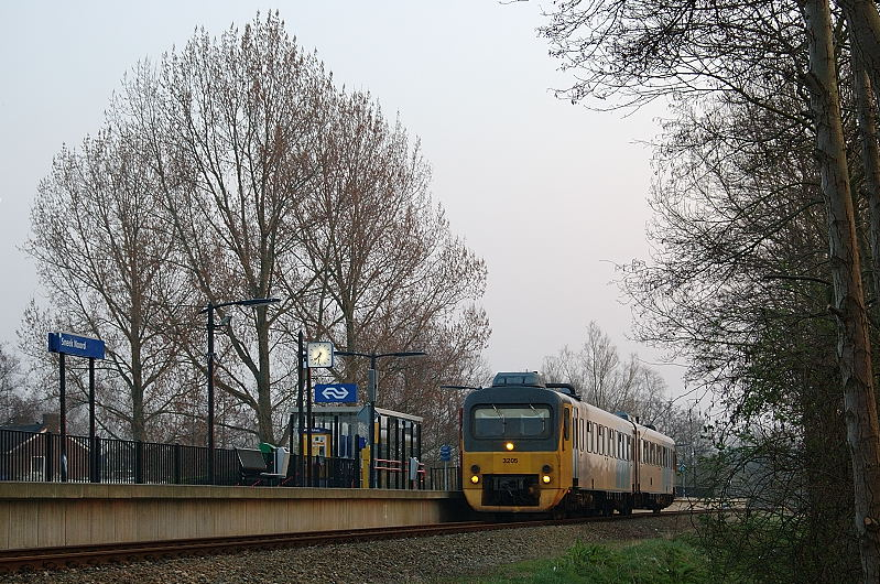 Arriva DMU 3205 'Wadloper' stops at the station of Sneek Noord, heading for Leeuwarden.